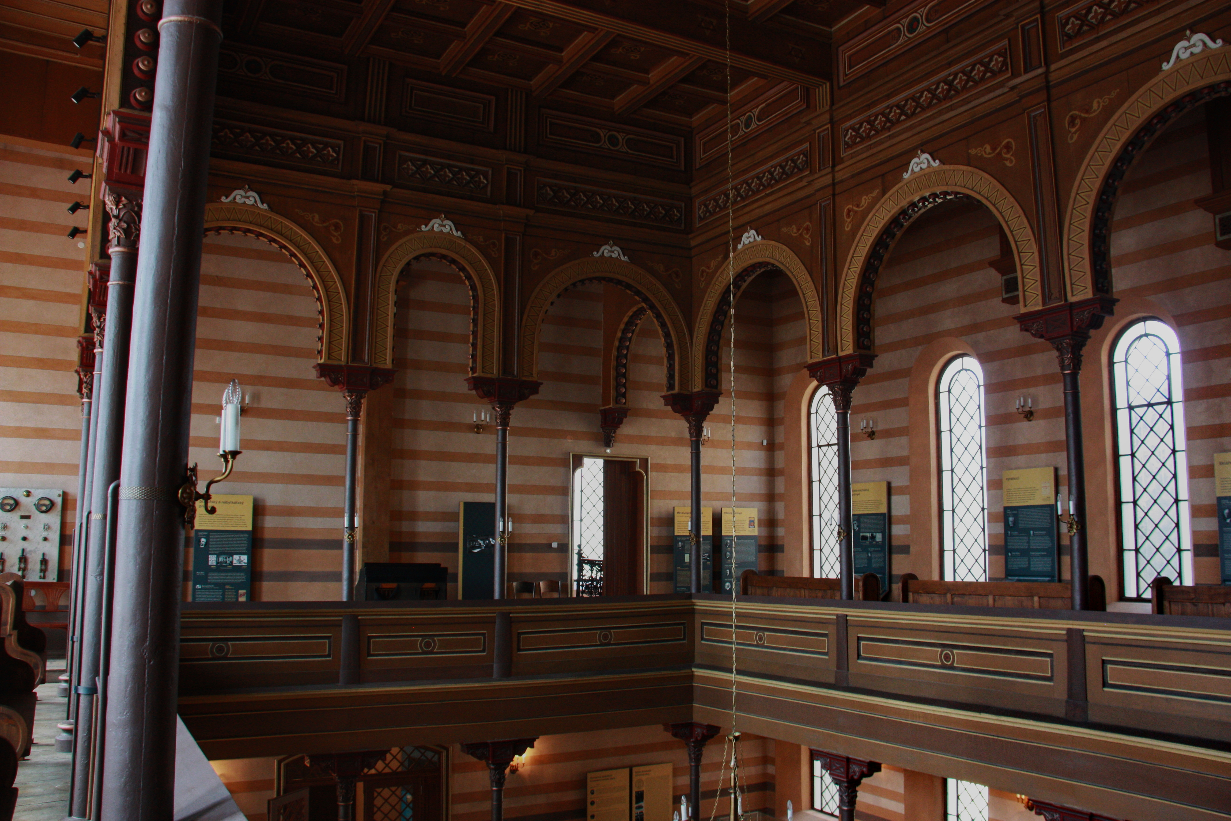 Interior of Krnov synagogue, Bruntál District, Moravian-Silesian Region, Czech Republic